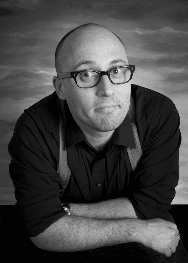 Portrait photo of Adam Elliot